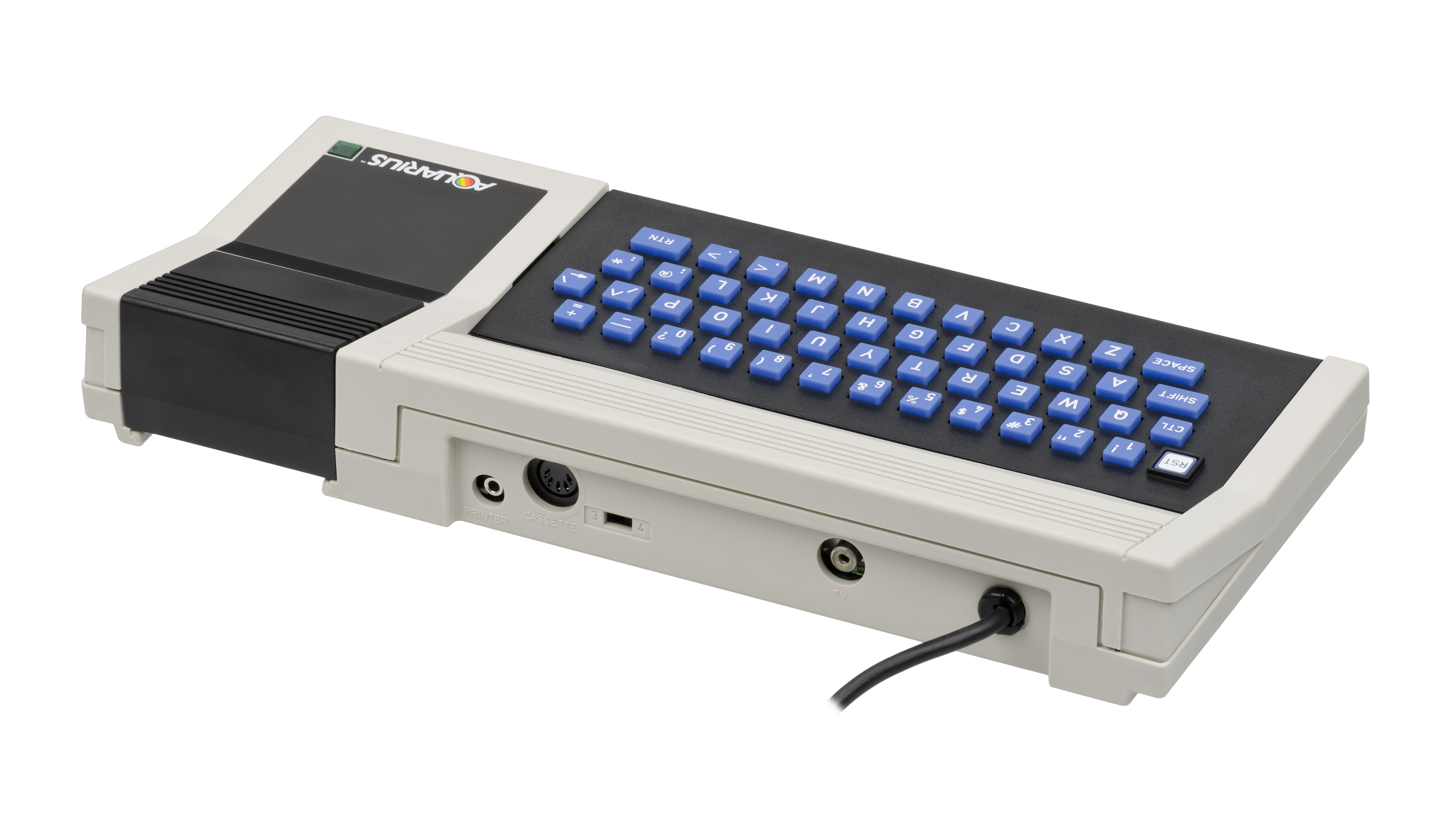 The Mattel Aquarius, an 8-bit computer that was first released in 1983.